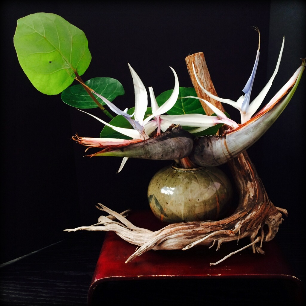 12. Another Hashibana design, this time created in 2014 by Banbara Fooks in a classic maru container with white Bird of Paradise, Seagrape leaves, and Hawaiian driftwood.